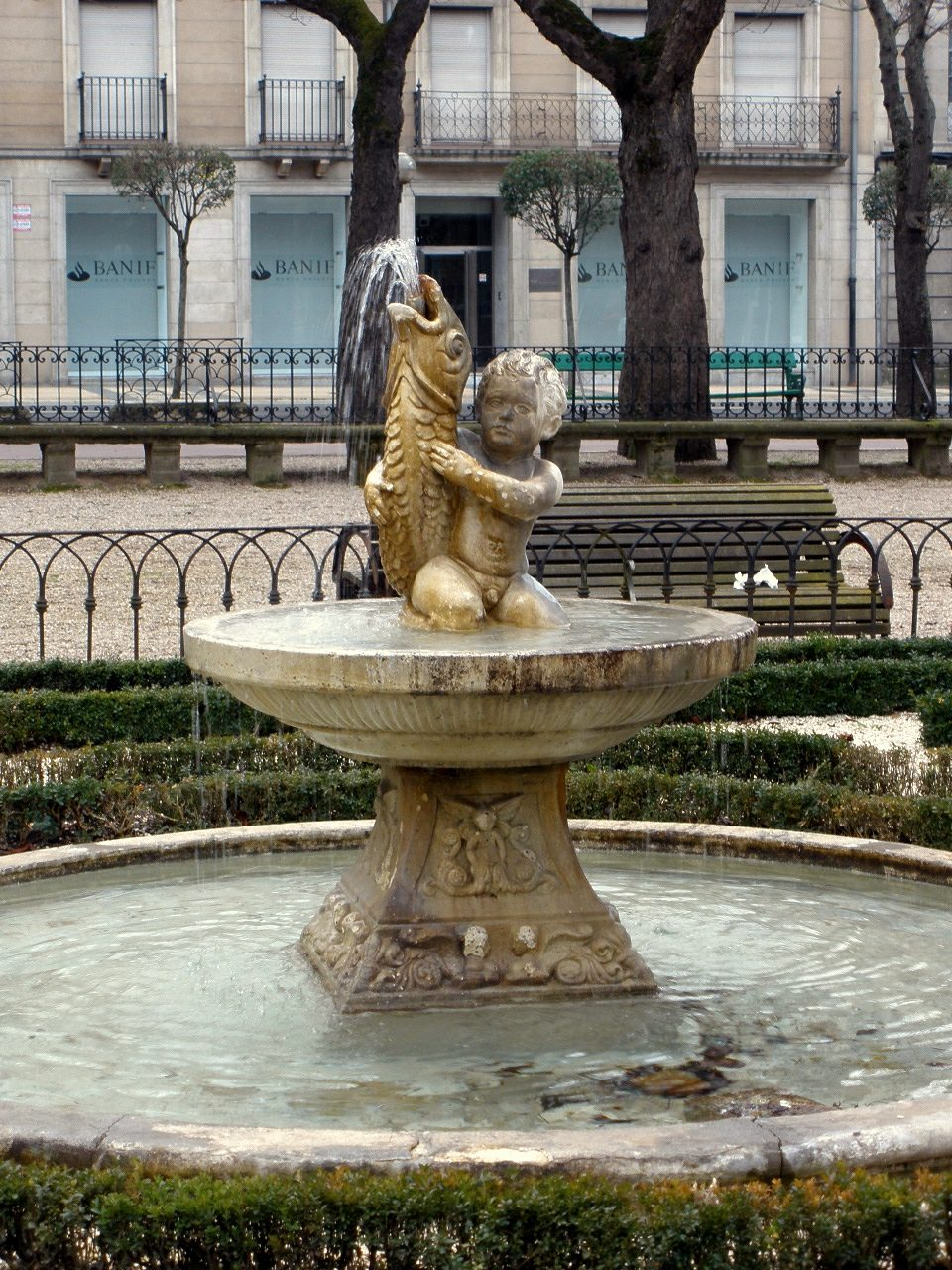 Fuente-bebedero en el Parque de la Florida de Vitoria-Gasteiz